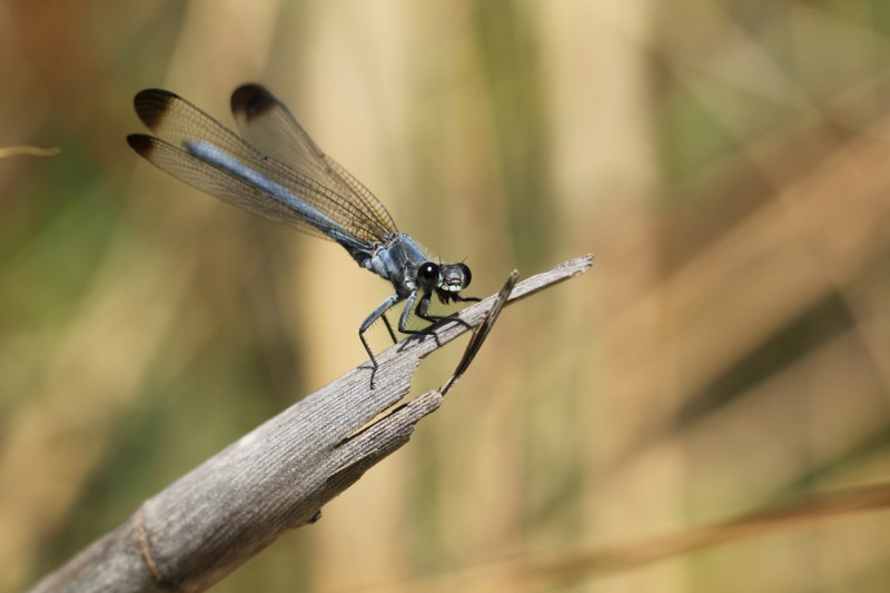 Epallage fatime (Euphaeidae) (Odalisque) - (male imago), Paphos, Cyprus